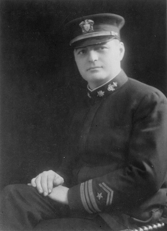 Lieutenant Commander Daniel A. J. Sullivan, United States Naval Reserve Force. Portrait photograph, taken circa 1920. Sullivan was awarded the Medal of Honor for "extraordinary heroism" while serving in USS Christabel (SP-162) during an action with a German submarine on 21 May 1918. He was a Naval Reserve Force Ensign at that time. Note the "overseas service" chevrons on his uniform sleeve.